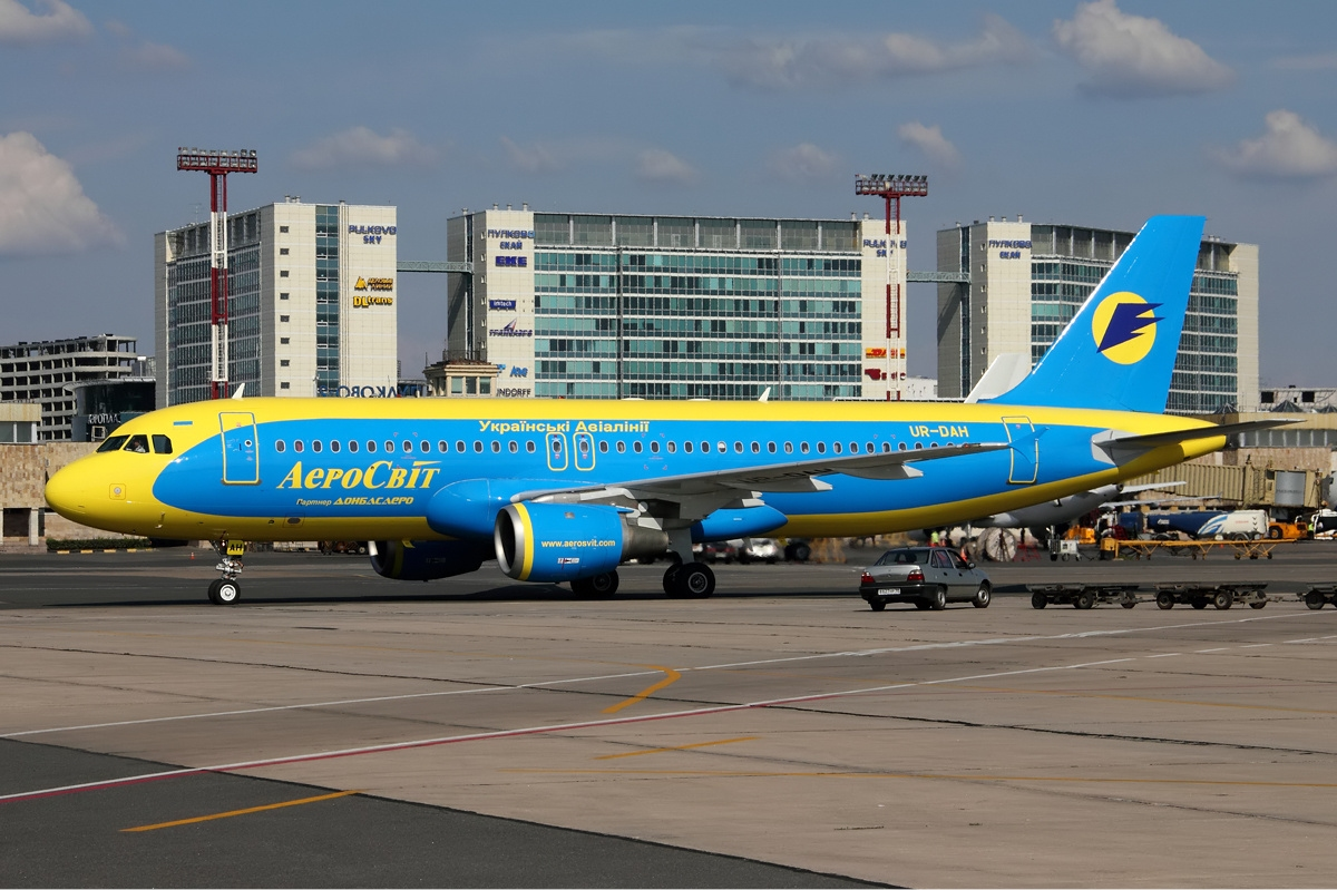 Aerosvit Airlines A320